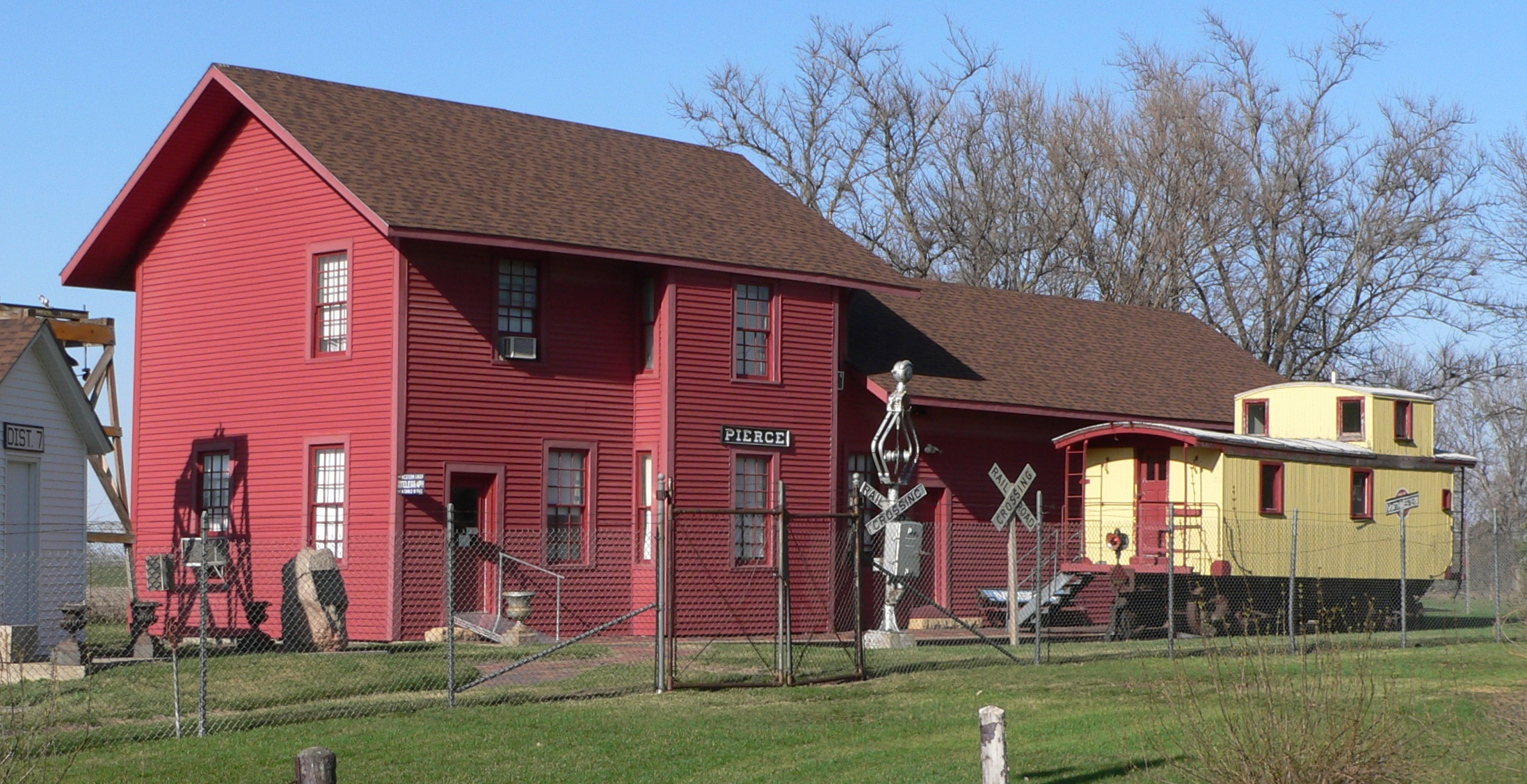 Chicago & North Western Railway depot, now located in Gilman Park, Pierce, Nebraska. The depot was built in Pierce in 1880 for the Fremont, Elkhorn and Missouri Valley Railroad; it was moved to the park in 1968, where it forms part of the Pierce Historical Society Museum.